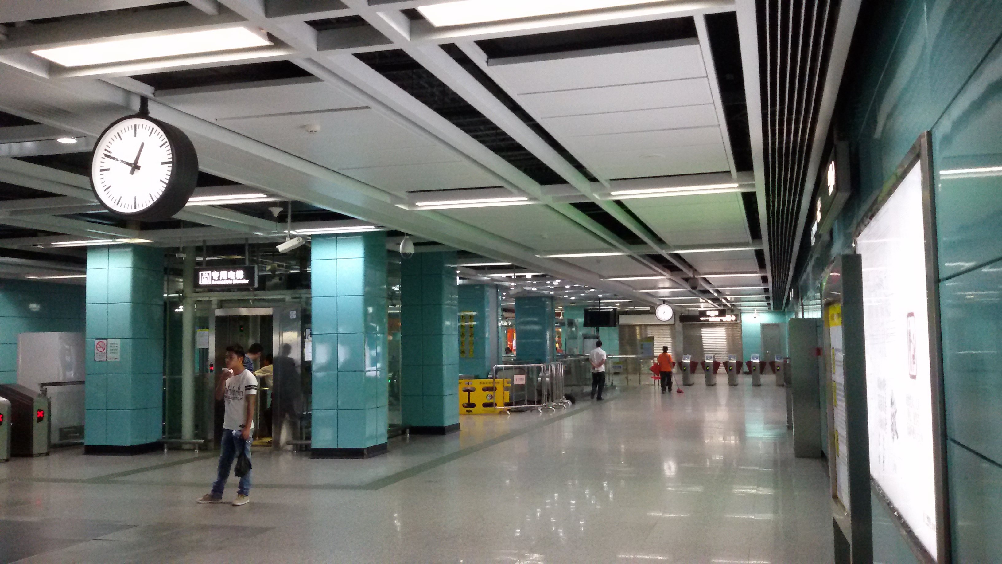 Station Concourse for Meihuayuan Station in Guangzhou Metro